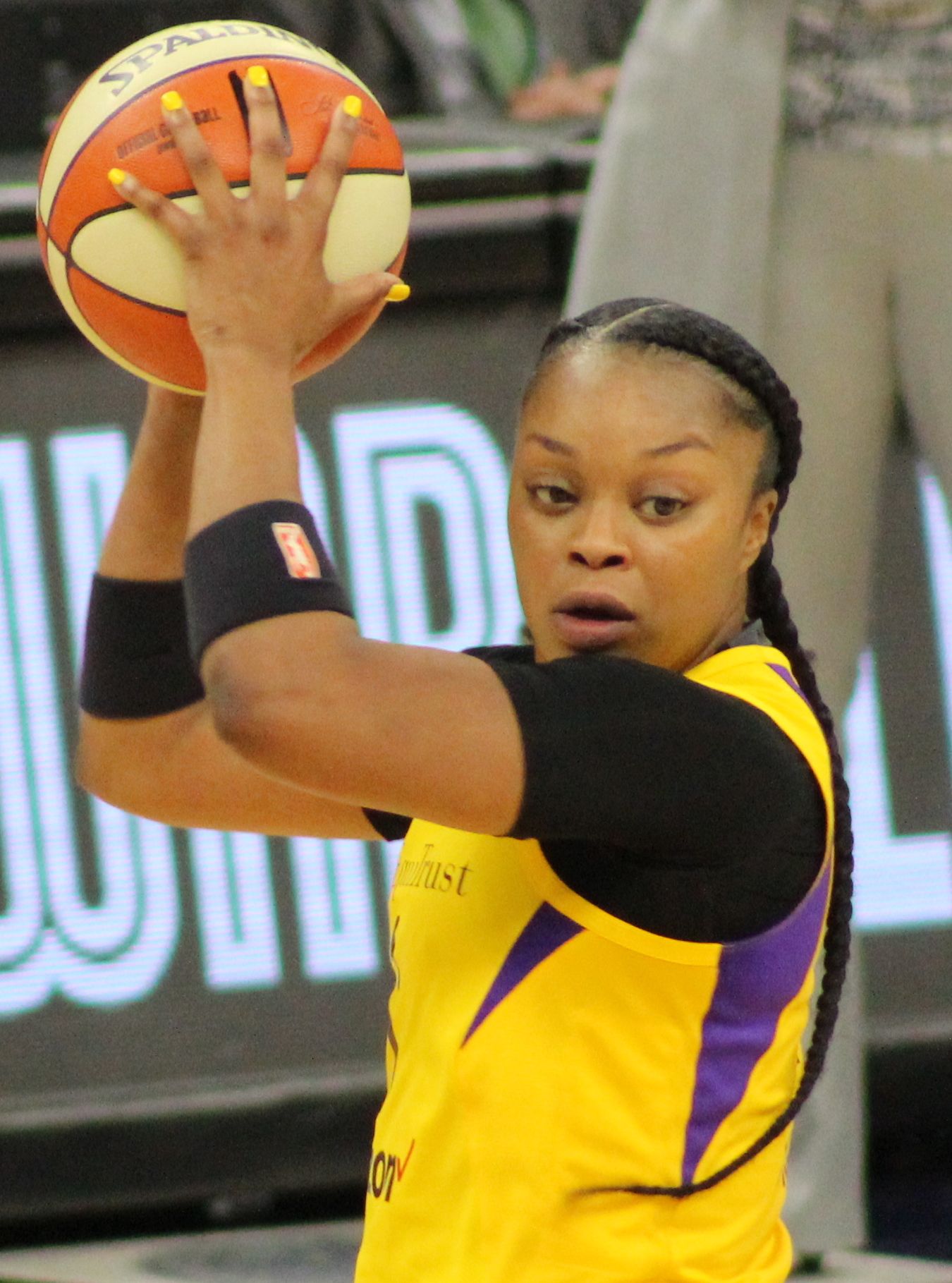 Odyssey Sims of the Los Angeles Sparks in 2018